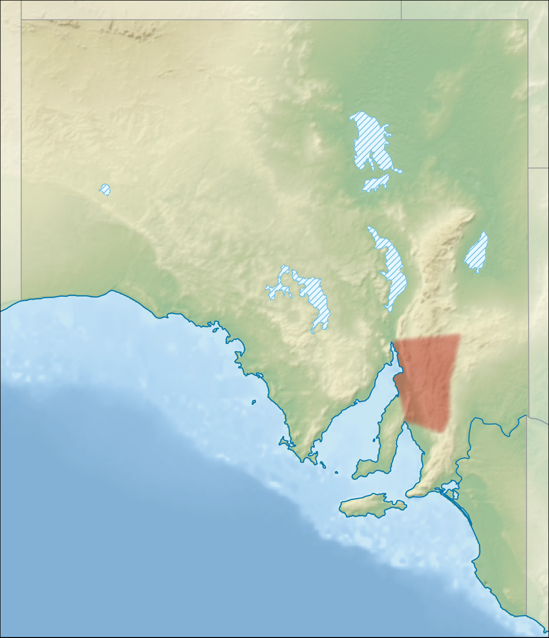 Mid North region of South Australia shown on relief map of South Australia Other information The definition of the Mid North region has been approximated based on Wikipedia's own description of the region's bounds.